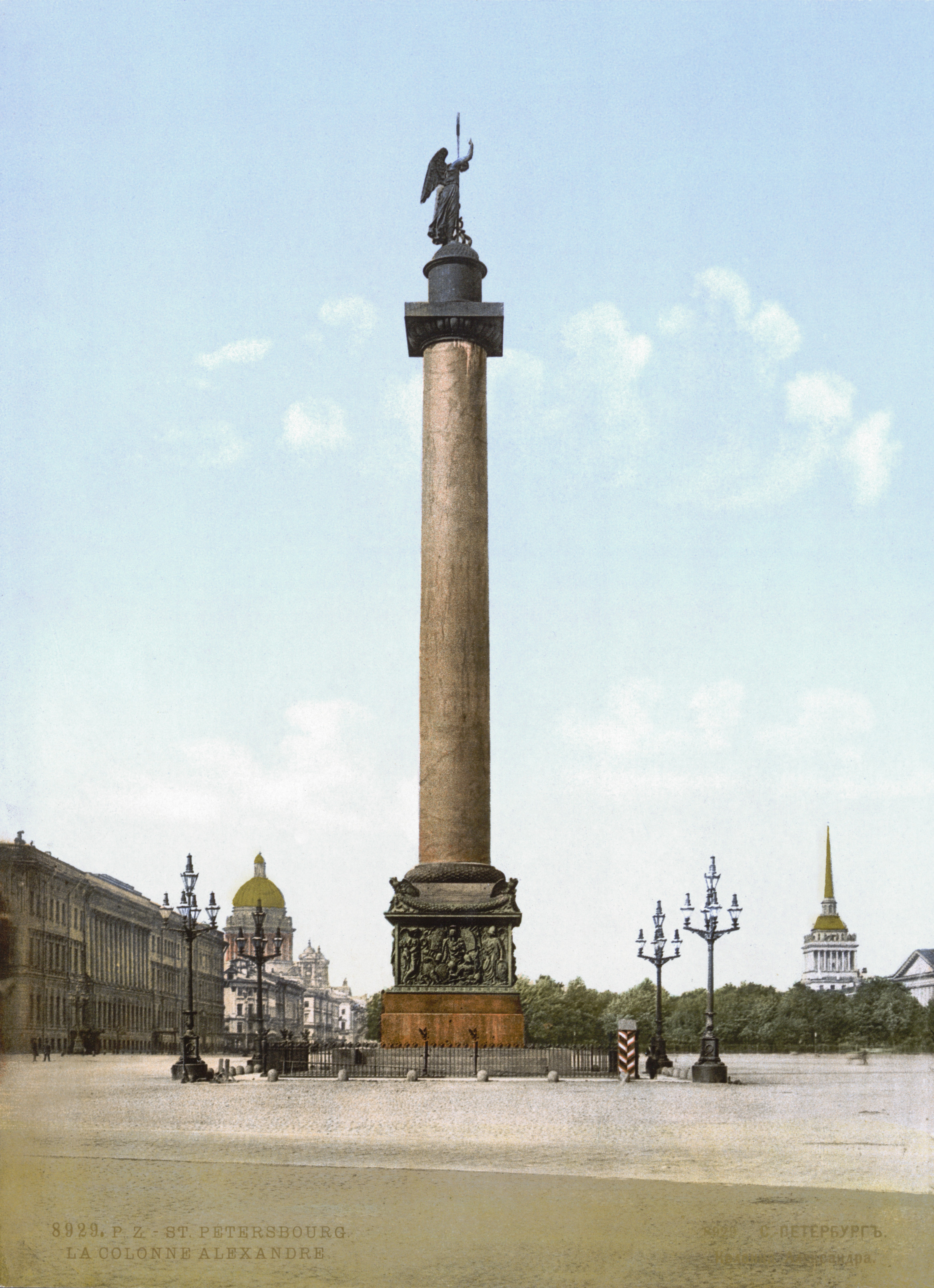 Saint Petersburg (Russia), Palace Square, Alexander Column. 19th-century photochrome print (1890—1900)